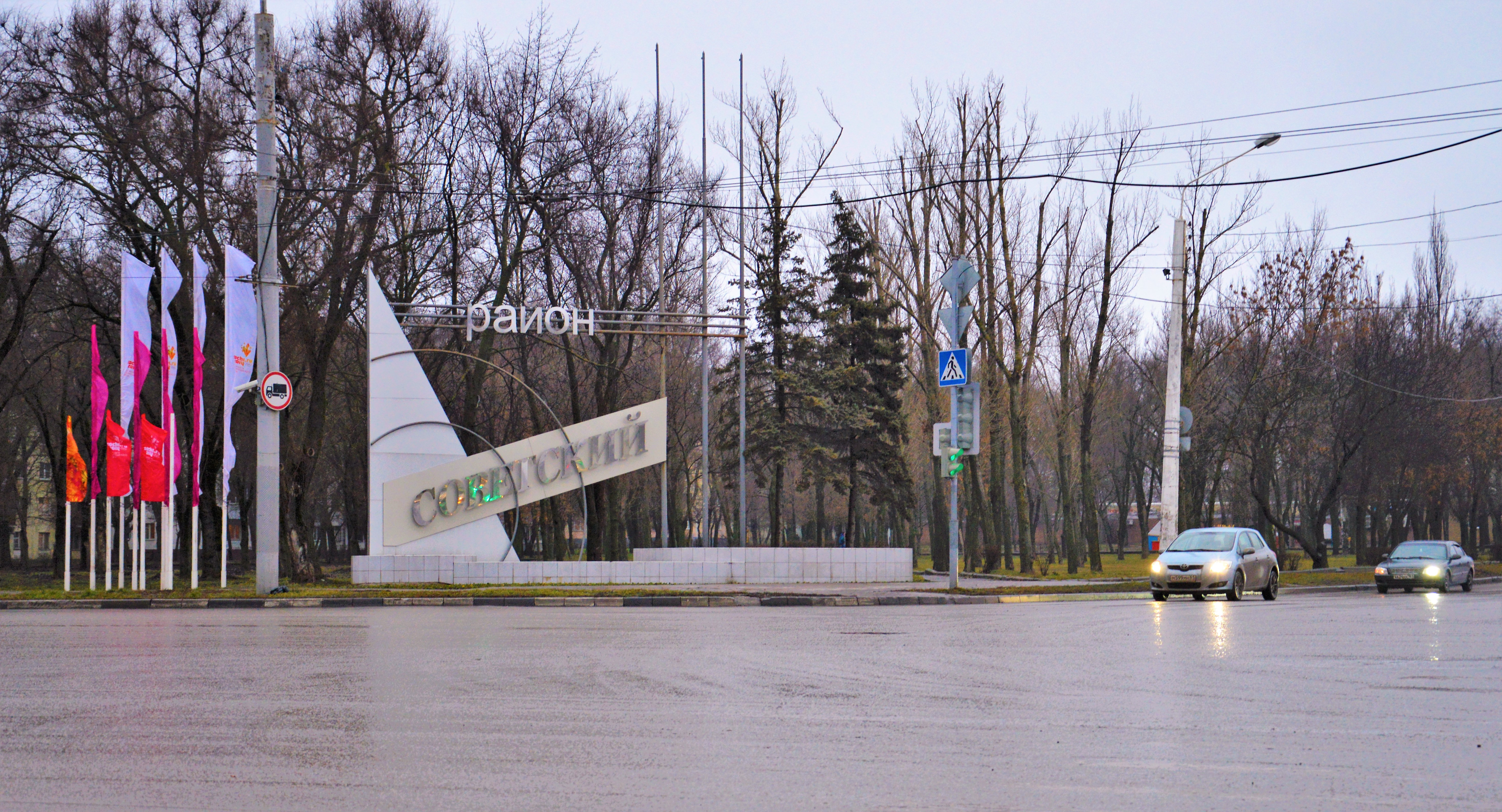 Divider at the border between Sovetskiy and Zheleznodorozhniy rayon of Rostov-on-Don. Rostov Oblast, Russia.